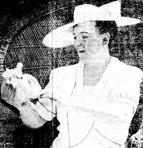 Ethel Knight Kelly (Mrs. T. H. Kelly), an actress, writer, and socialite. She is holding a doll to be sold at a charity event